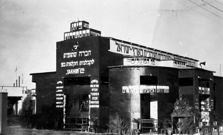 Levant Fair, Tel Aviv. 1932